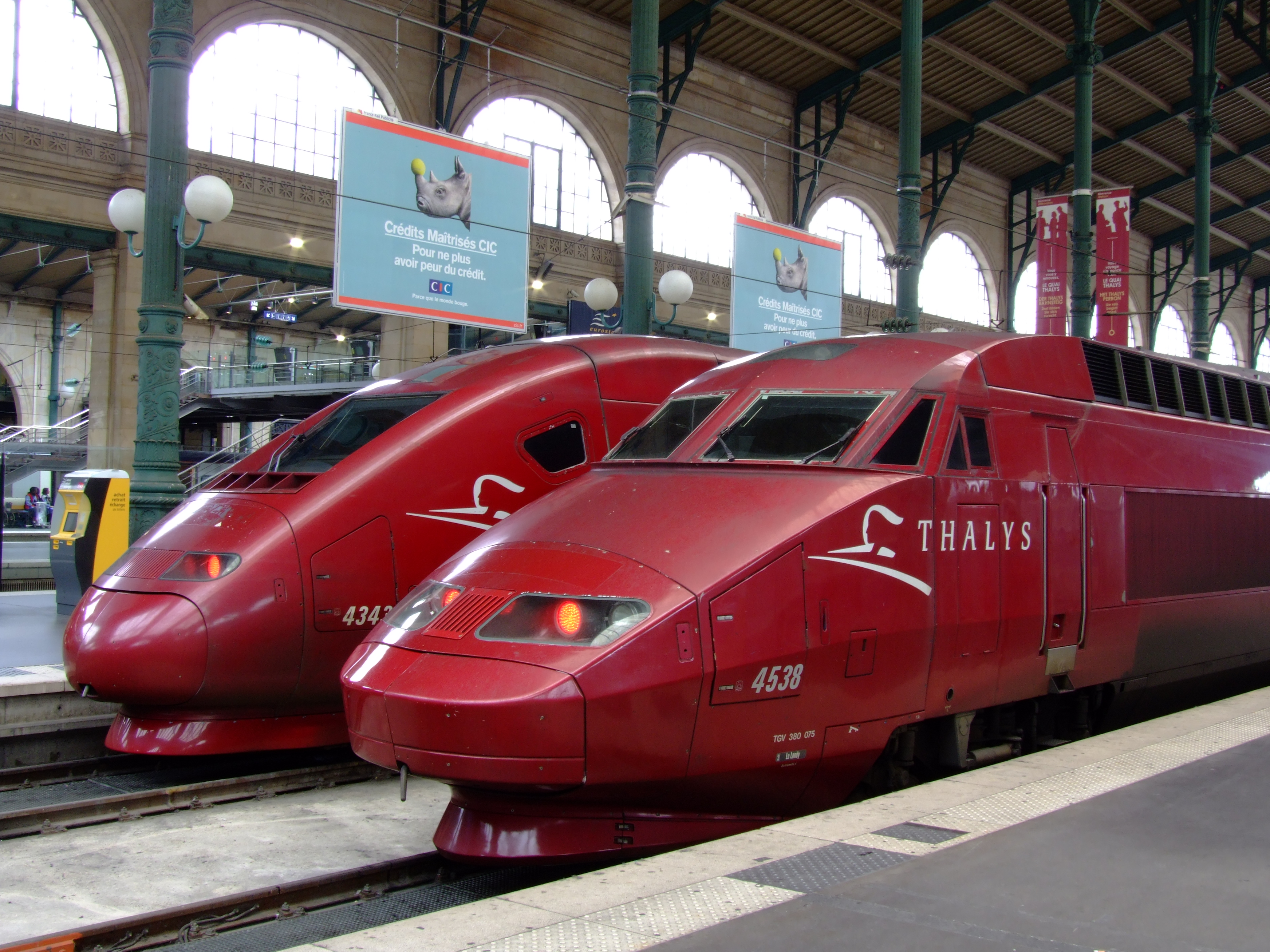 Photograph of Thalys trains.